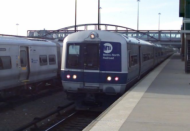 A Grand Central bound M3 local at Croton-Harmon, August 2006. An M7A sits in the yard tracks to the left.